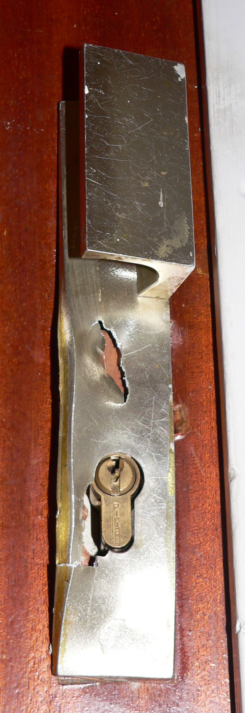 A door handle and a lock after attempted burglary.